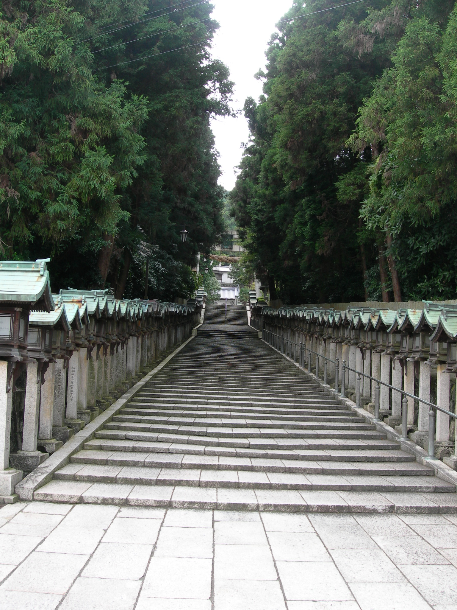 Stairs of Hōzan-ji, Ikoma, Nara. taken in 2009.